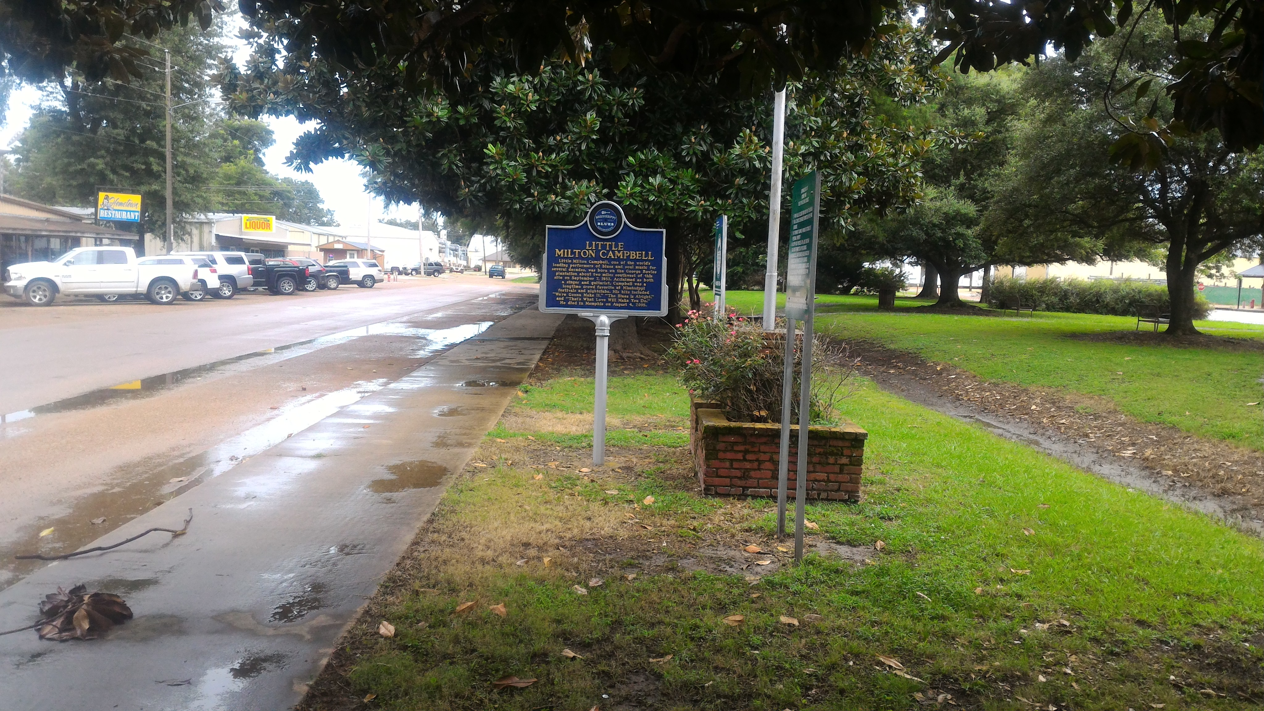 Mississippi Blues Trail marker in downtown Inverness Mississippi